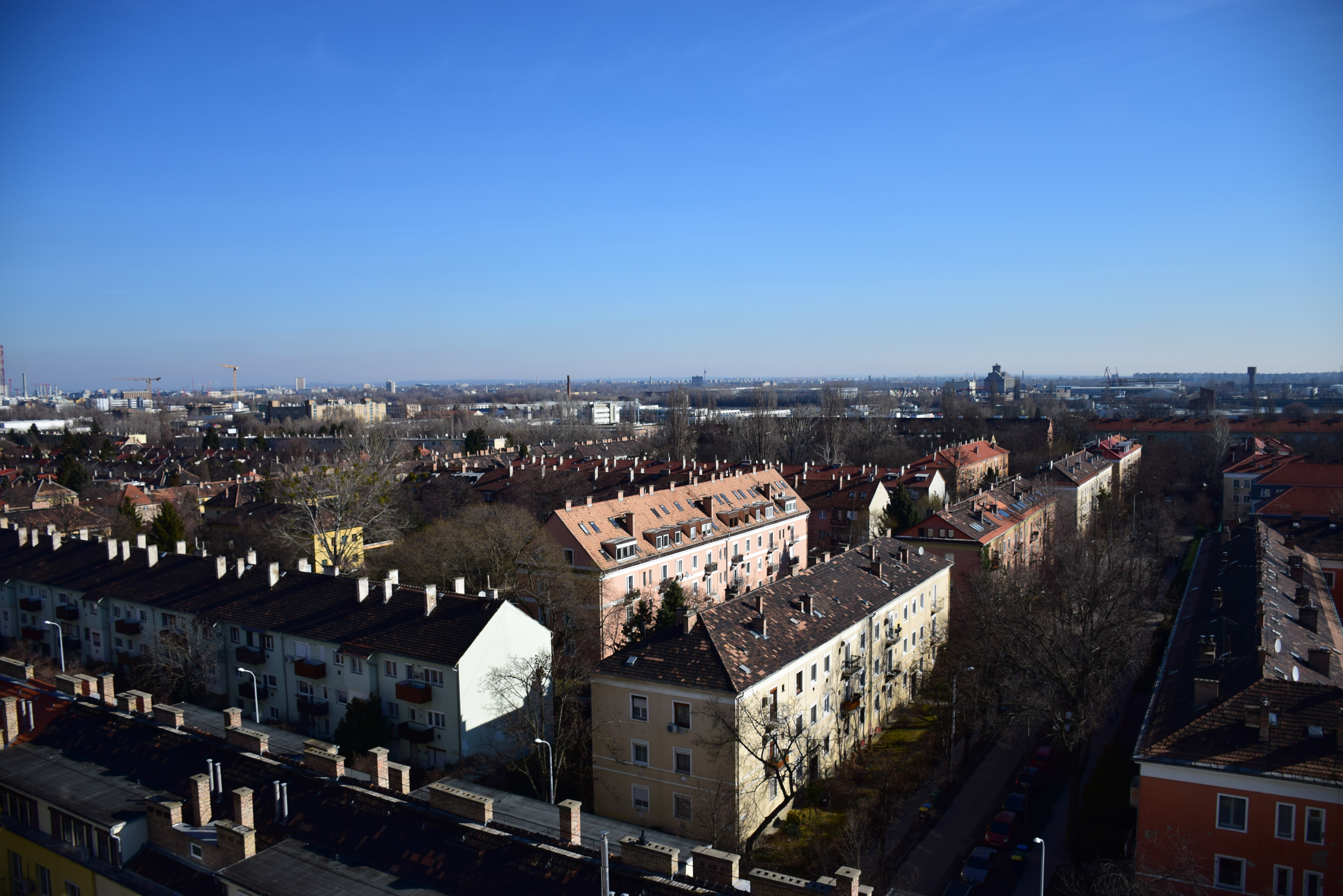 Albertfalva housing estate, Budapest